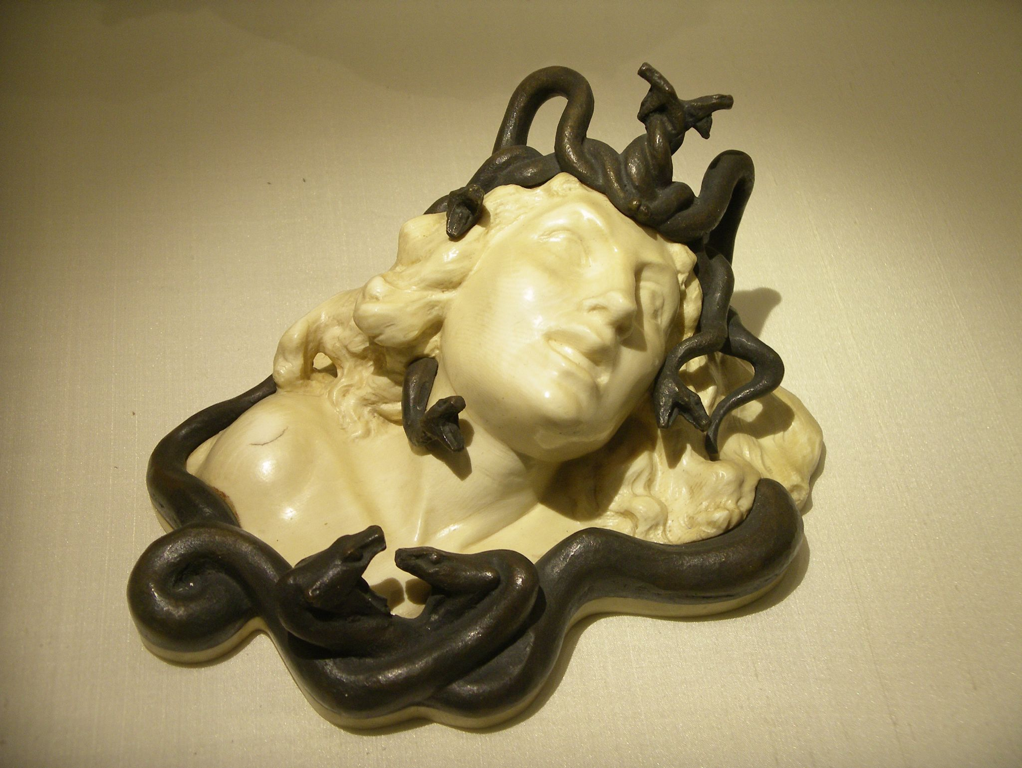 Portrait of Medusa by René Lalique, a respected French artist (1860-1945)